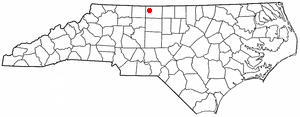 Category:North Carolina Dot Maps